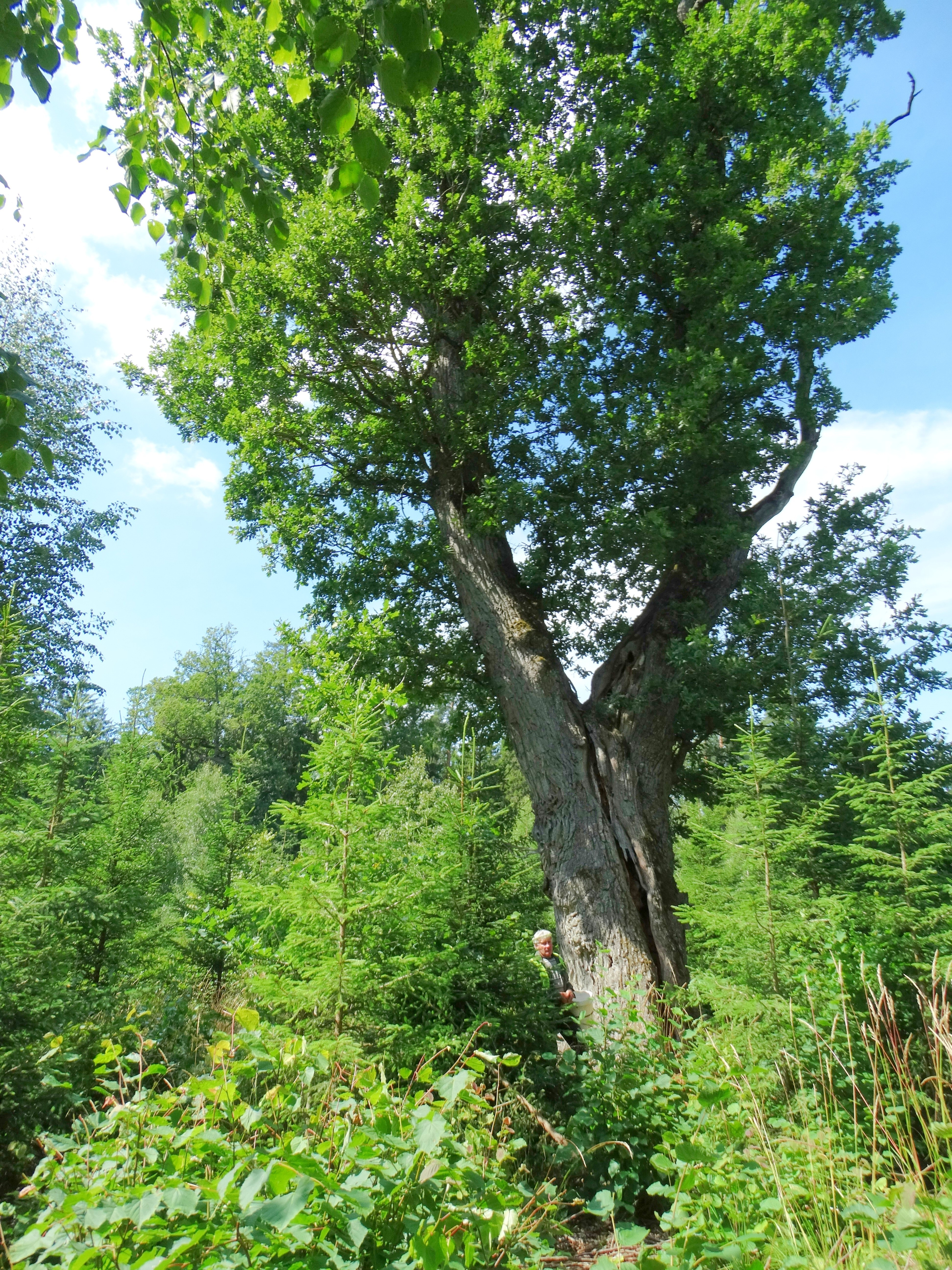 Oak, Linkaičiai forest, Radviliškis District, Lithuania